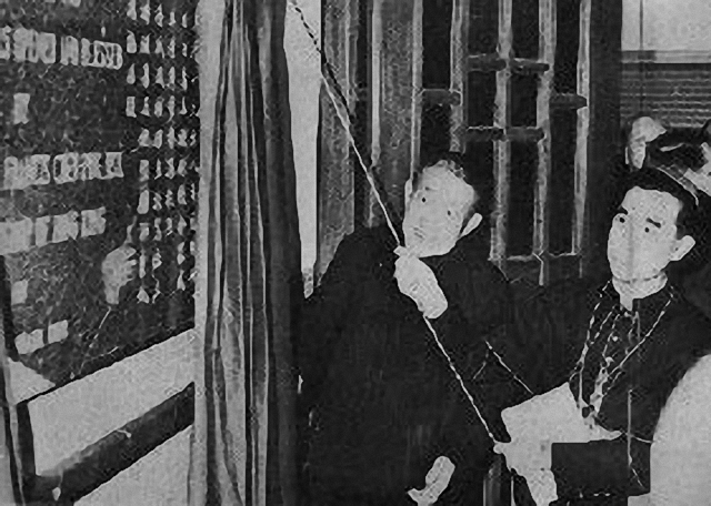 SJACS Old Campus Ceremony 中文（香港）: 聖若瑟英文中學觀塘道前校舍開幕典禮和祝聖儀式